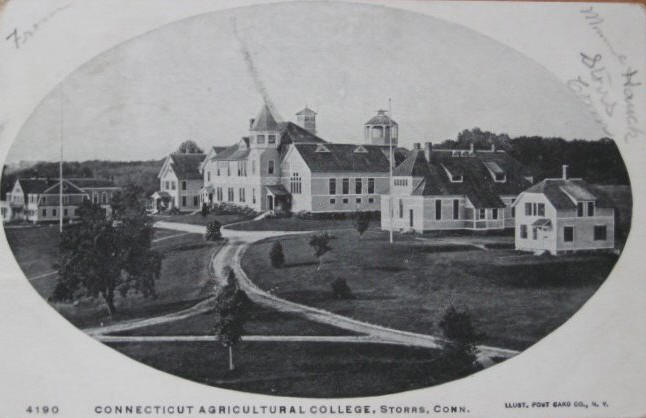 Postcard: State agricultural college, Storrs, Connecticut, later named University of Connecticut at Storrs, circa 1903 Description: Caption: "CONNECTICUT AGRICULTURAL COLLEGE, STORRS, CONN." Also on front of card, lower right corner: "ILLUST. POST CARD CO., N.Y."; lower left corner: "4190"